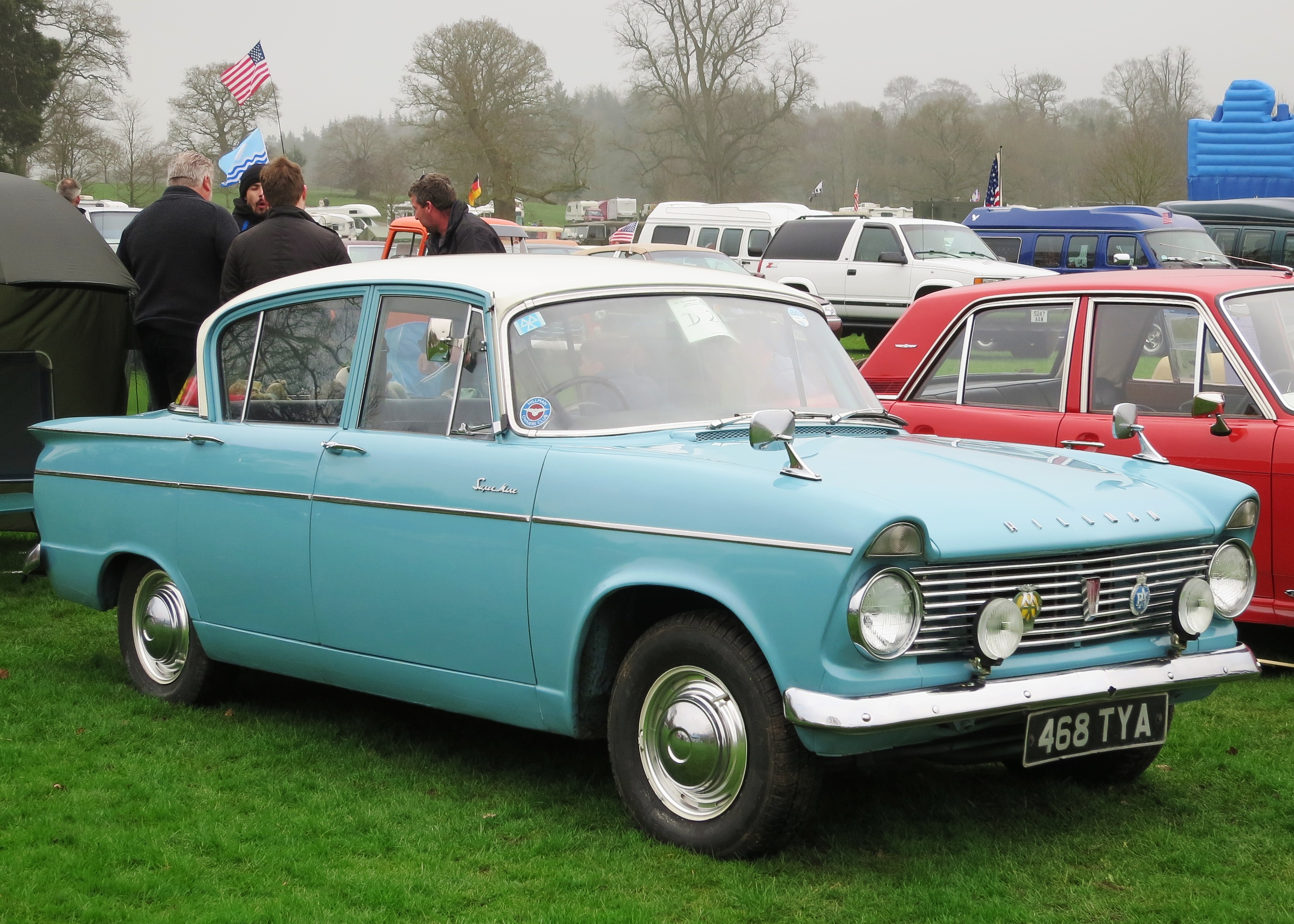 Hillman Super Minx (1963)